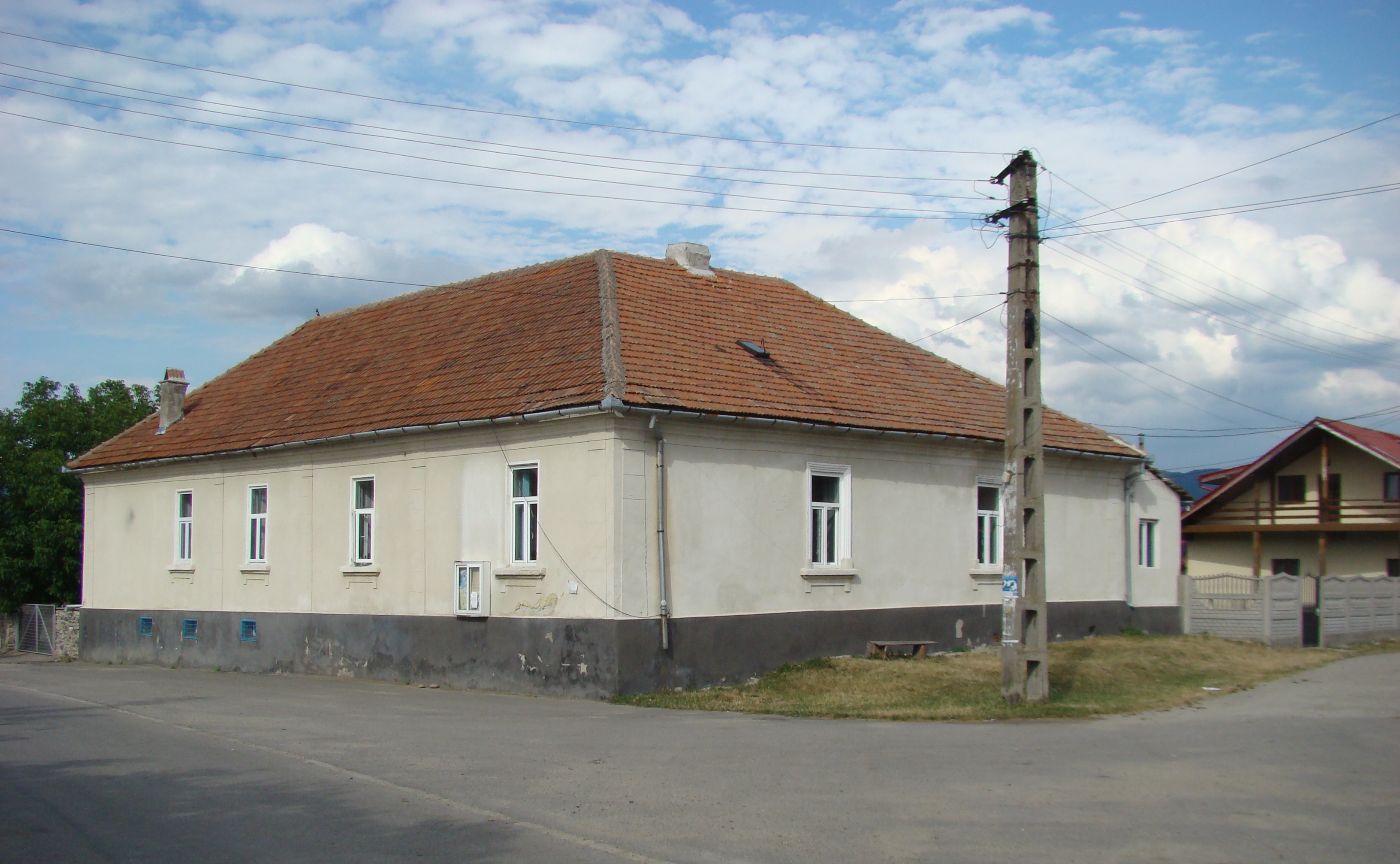 Râu Bărbat, Hunedoara county, Romania